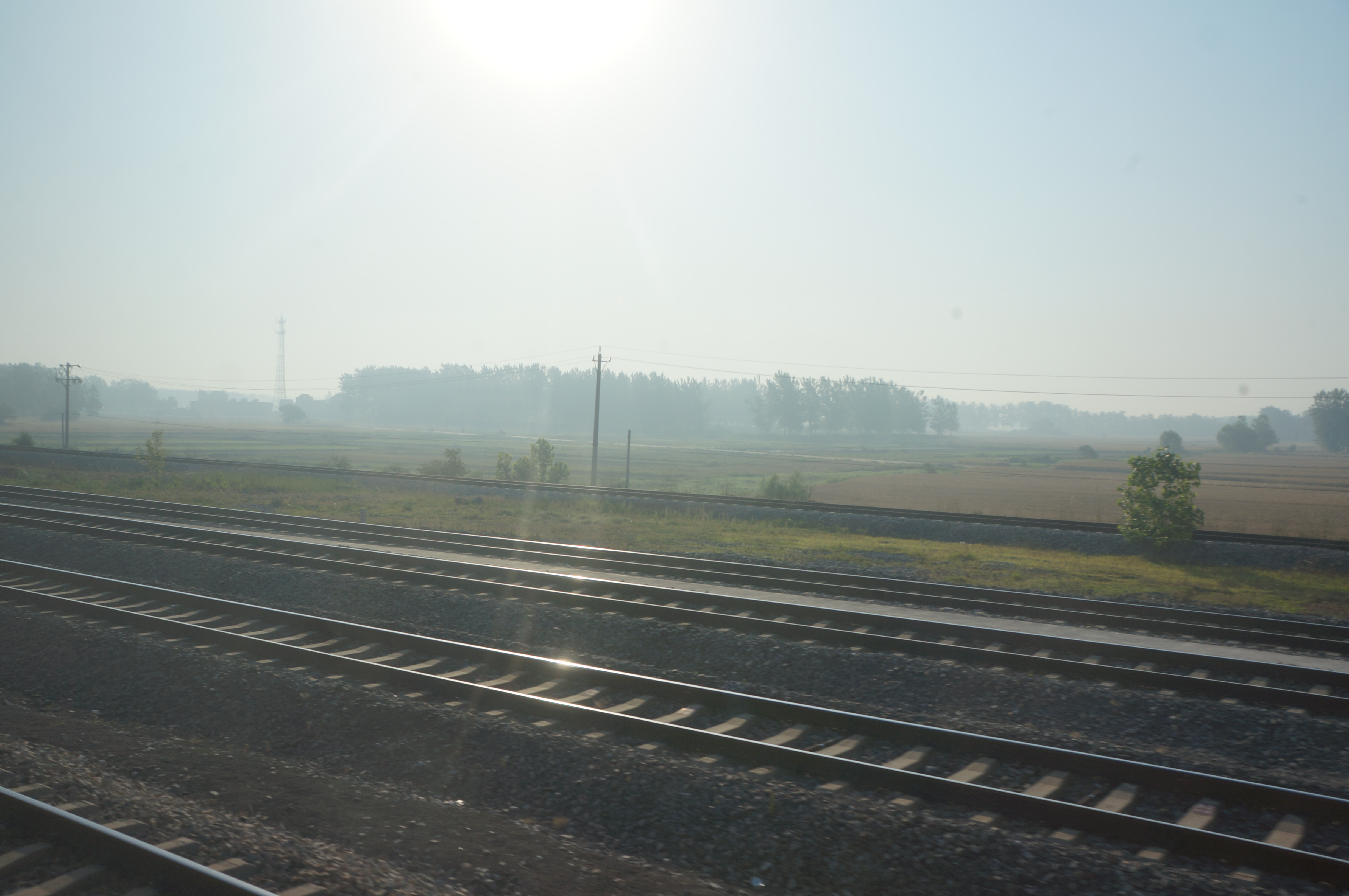 201705 Tracks at Nianjiagang Station